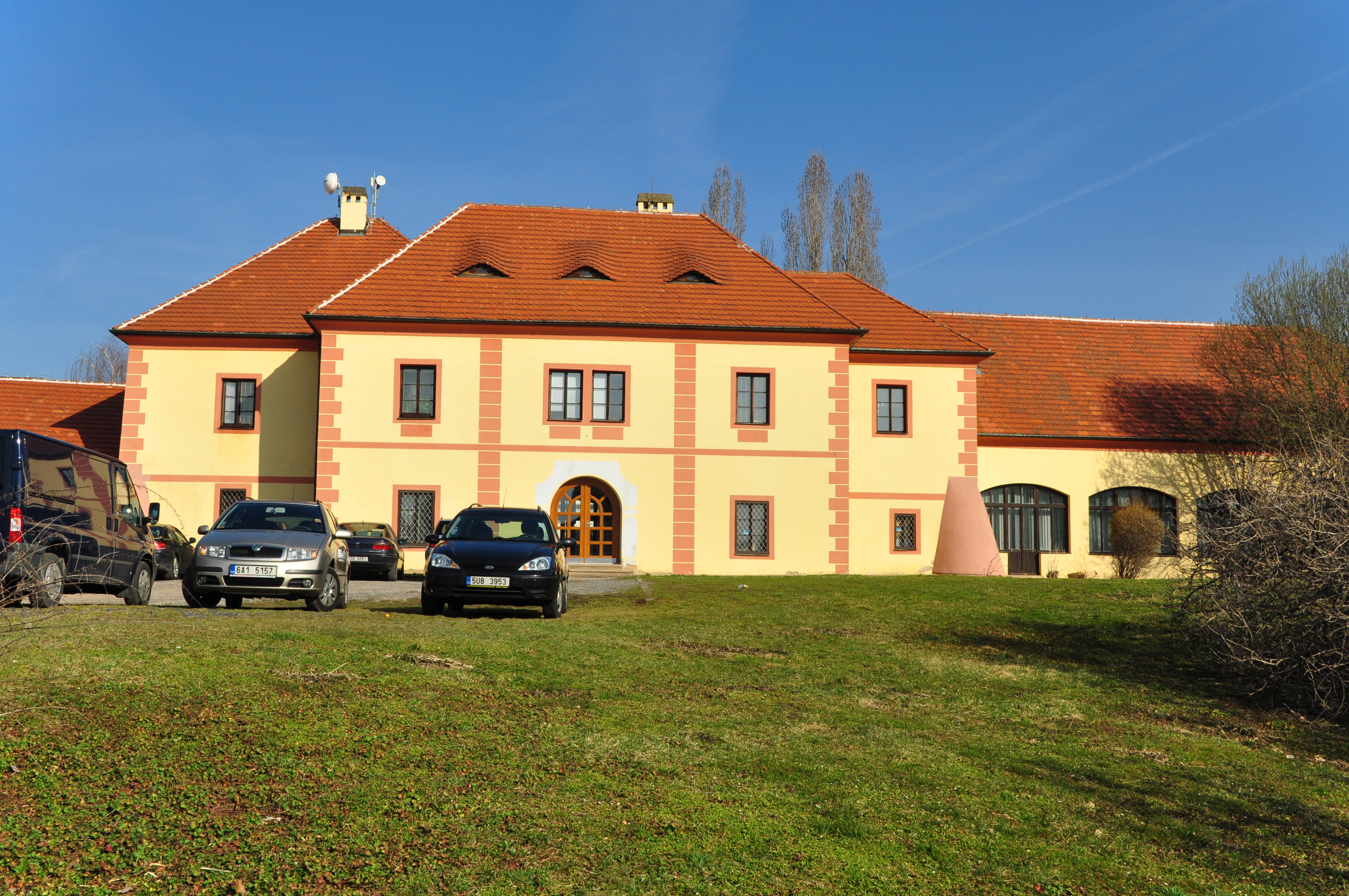 Homestead Beránka